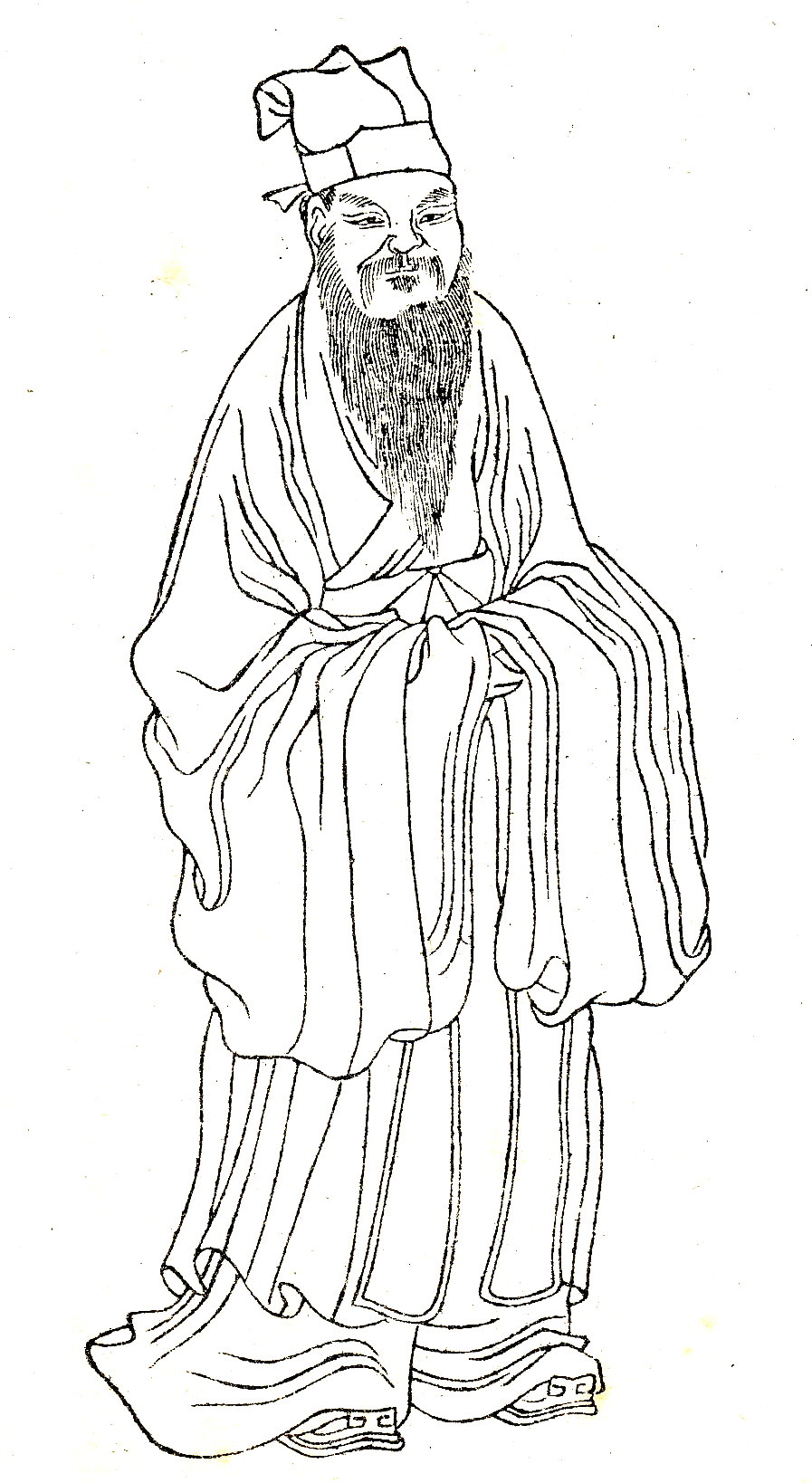 Portrait of Cheng Hao Published in Wan hsiao tang-Chu chuang -Hua chuan (晩笑堂竹荘畫傳), 1743.